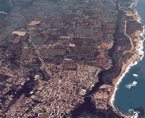 Aerial view of Isabela, Puerto Rico.